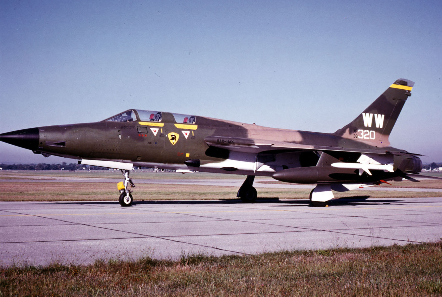 The U.S. Air Force Republic F-105G Thunderchief (s/n 63-8320) "Bam Bam" of the 561st Tactical Fighter Squadron after restoration was complete. This aircraft is on display at the National Museum of the United States Air Force at Dayton, Ohio (USA).